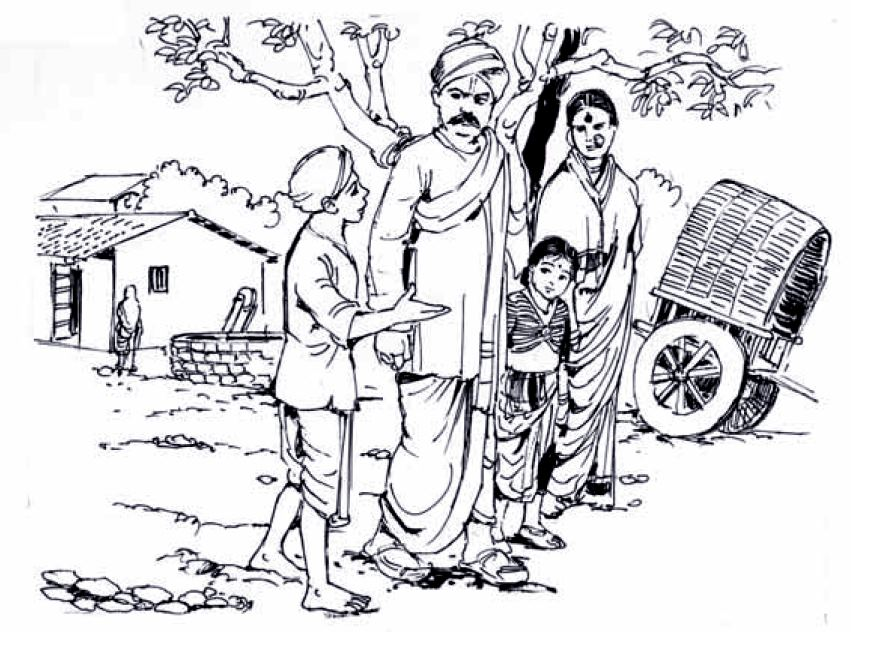 Ramdas balpan